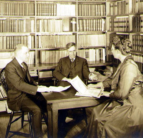 Brandeis (center), Alice H. Grady, and Mass. State Actuary Irvin Hirst in the Brandeis law offices, 161 Devonshire St., Boston. (January, 1916).